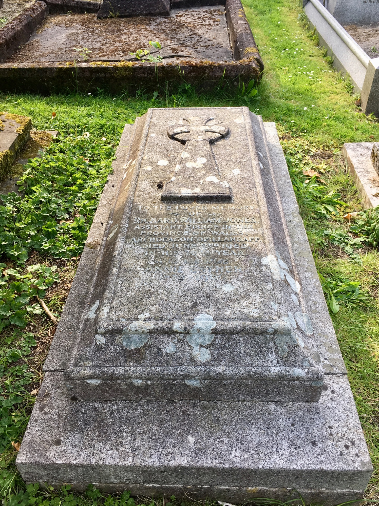 Graves in Llandaff churchyard, May 2020